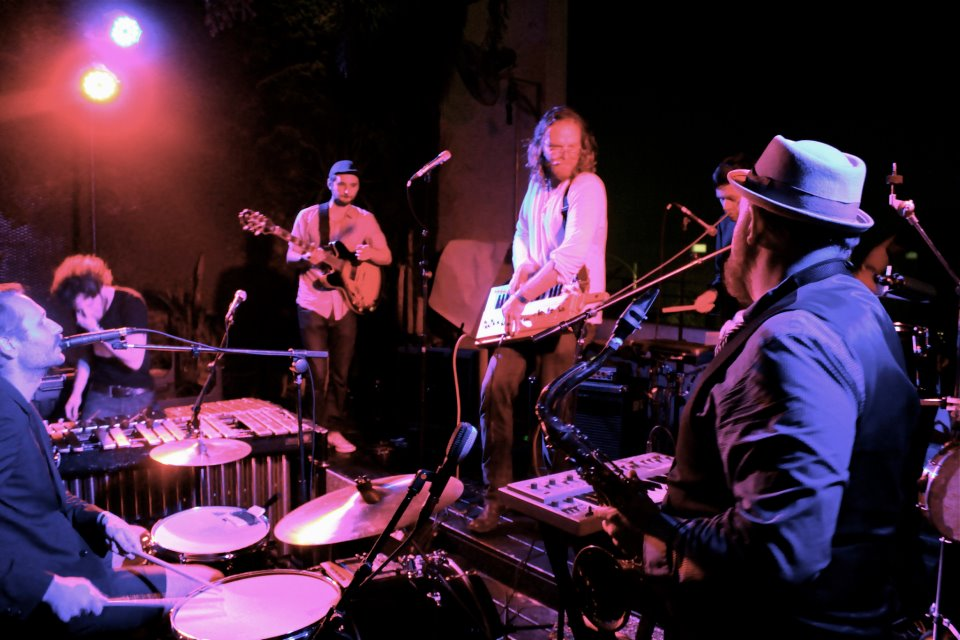 Rasmus Bille Bahncke playing his red SH101 with Hess Is More at SXSW 2012 Austin Texas